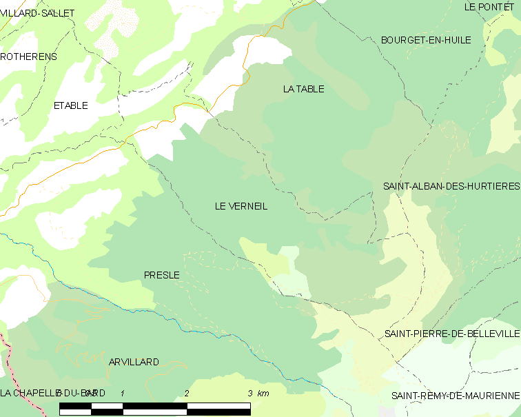 Map of French municipality Le Verneil